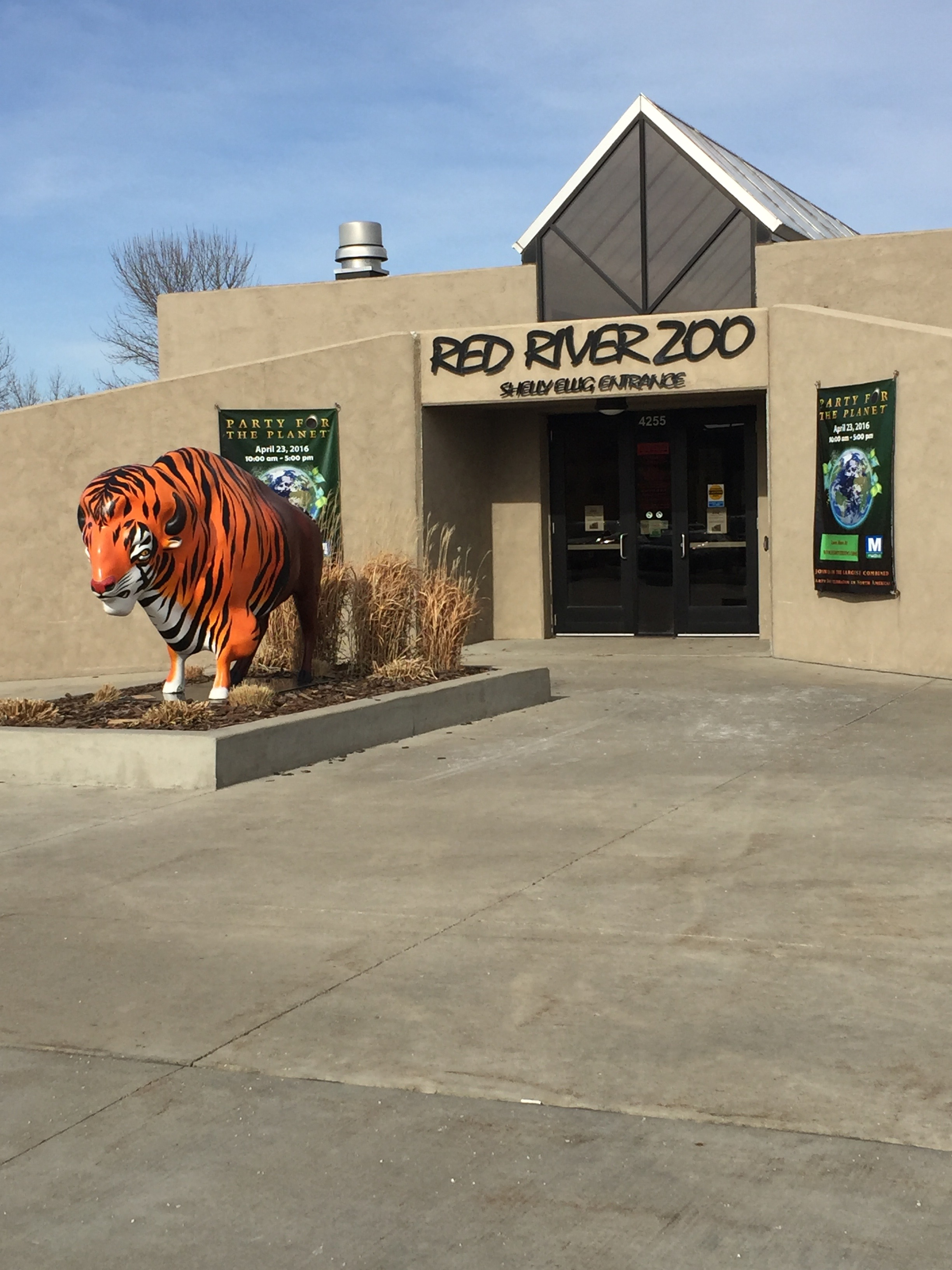 Front entrance of the Fargo, North Dakota Red River Zoo